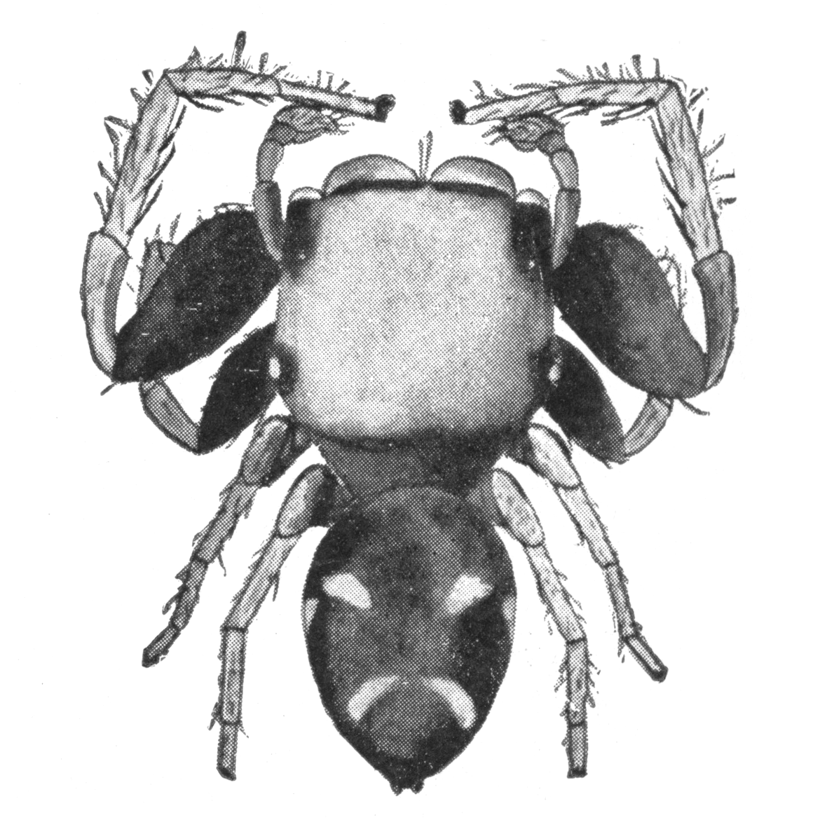 Drawing of Zygoballus sexpunctatus jumping spider